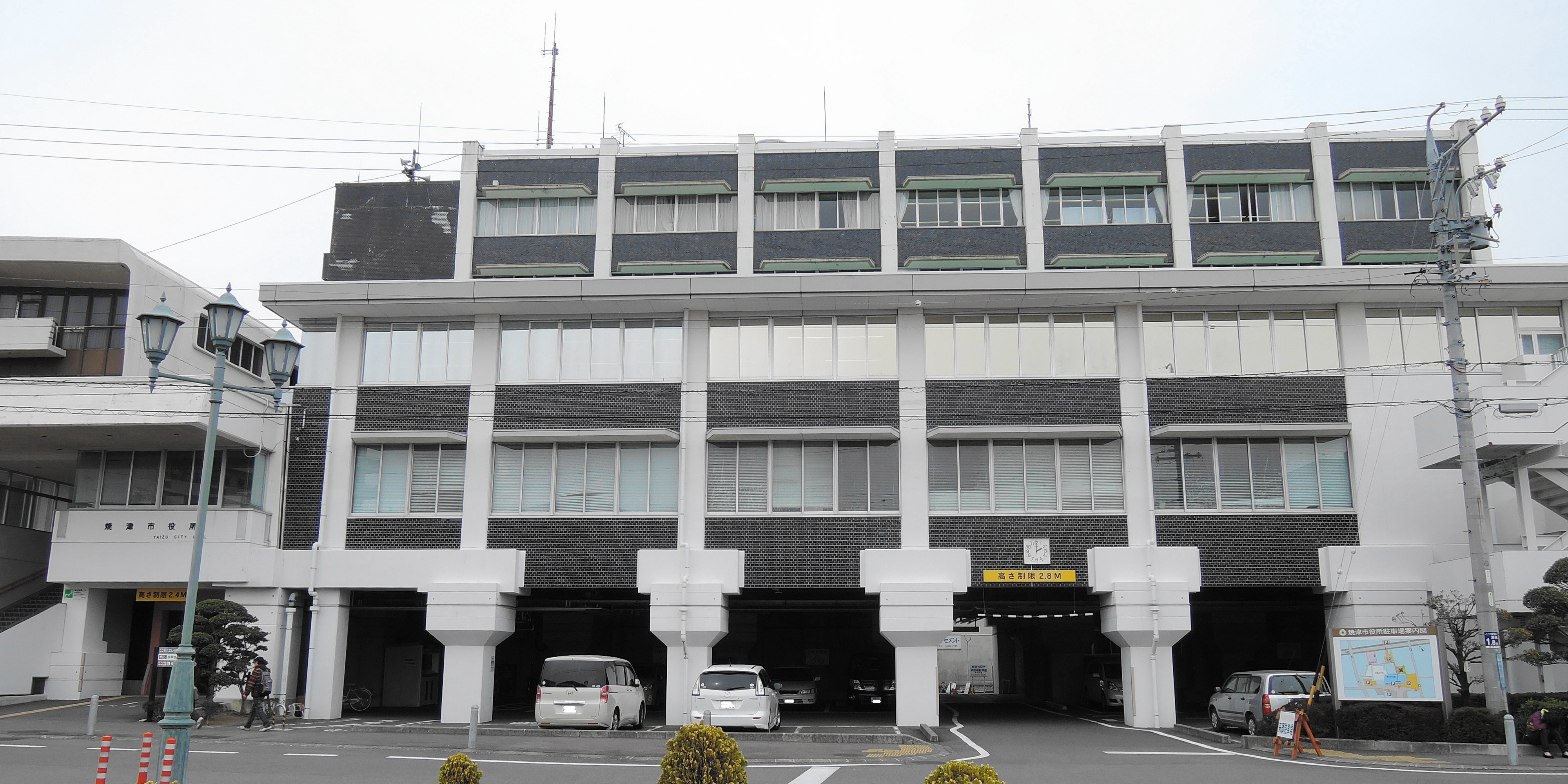 Yaizu city hall,Shizuoka prefecture,Japan